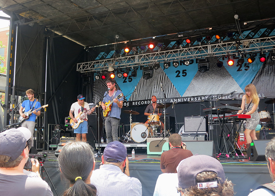 The Love Language at Merge25 in the Cat's Cradle parking lot in Carrboro, NC on Saturday, July 26th, 2014